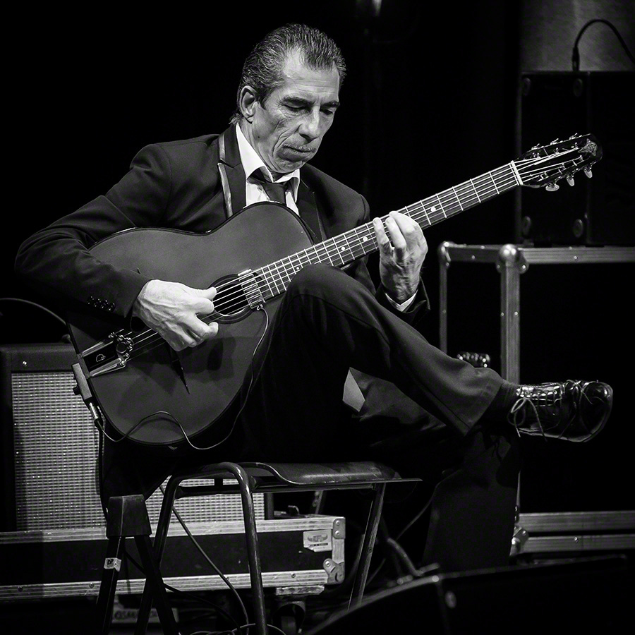 Angelo Debarre performs at Cosmopolite during the Django festival 2016.